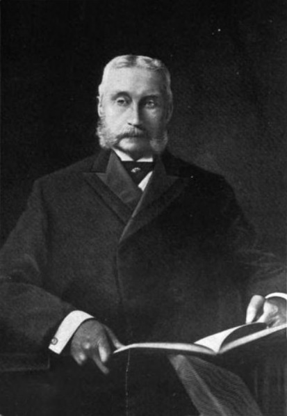 Photograph of Henry R. Hatch, dry goods merchant and banking executive who lived in Cleveland, Ohio, in the United States. The photo dates to about 1910. Hatch was president of Lake View Cemetery from 1896 to his death in 1915, helping the cemetery to recover from near-bankruptcy.